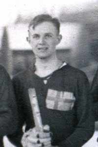 David Säfwenberg with the swedish national ice hockey team at the 1920 Summer Olympics in Antwerp, Belgium. The picture is a crop out of a larger team photo taken inside the ice rink Palais de Glace d'Anvers. The ice hockey tournament at the 1920 Summer Olympics took place between April 23 and April 29.